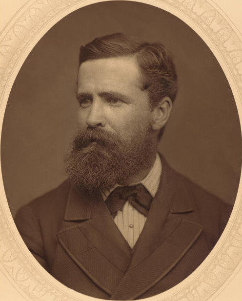 Black and white photographic portrait of the English explorer Verney Lovett Cameron, taken in 1878, and published in "Men of Mark: a gallery of contemporary portraits of men distinguished in the senate, the church, in science, literature and art, the army, navy, law, medicine, etc," written by Thompson Cooper, published at London, Sampson Low, 1876-1878. Image courtesy of the University of St Andrews, Scotland.